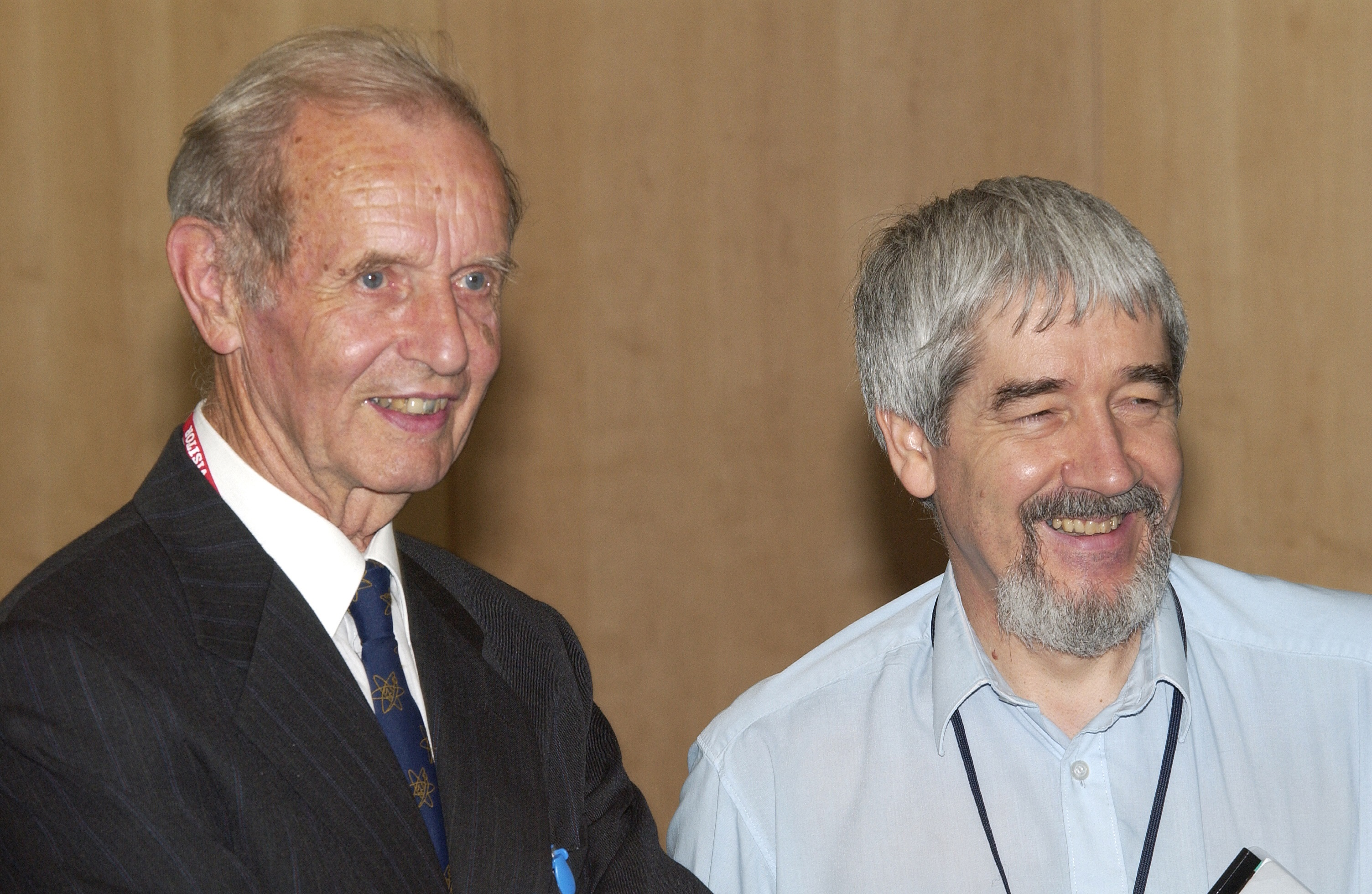 Taken at the Witness Seminar “Development of Physics Applied to Medicine in the UK, 1945-1990” held by the History of Twentieth Century Medicine Group